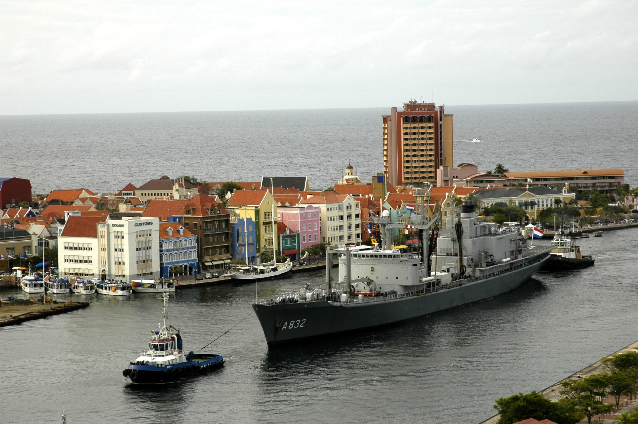 HNLMS Zuiderkruis (A832) in Curacao